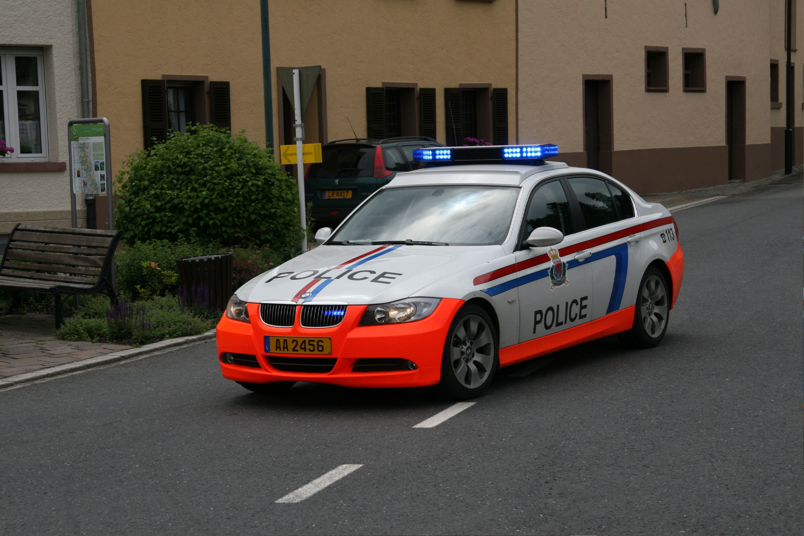 A car of the Luxembourg police in Stolzembourg, Luxembourg.